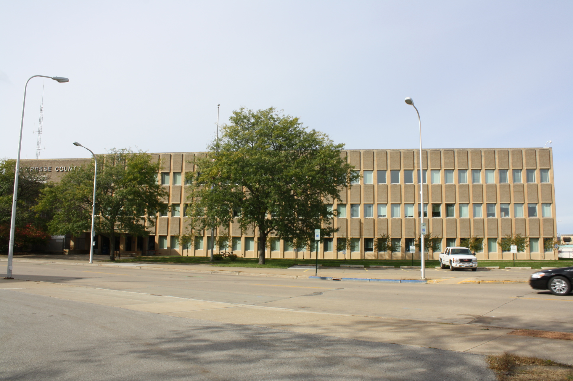 The courthouse for La Crosse County, Wisconsin in La Crosse, Wisconsin.